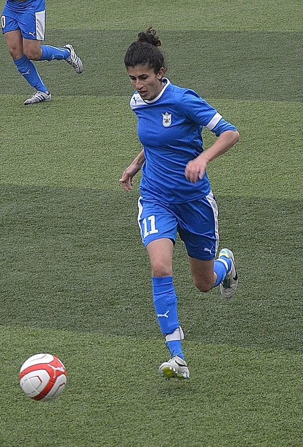 Yağmur Uraz for Konak Belediyespor in the 2013-14 season